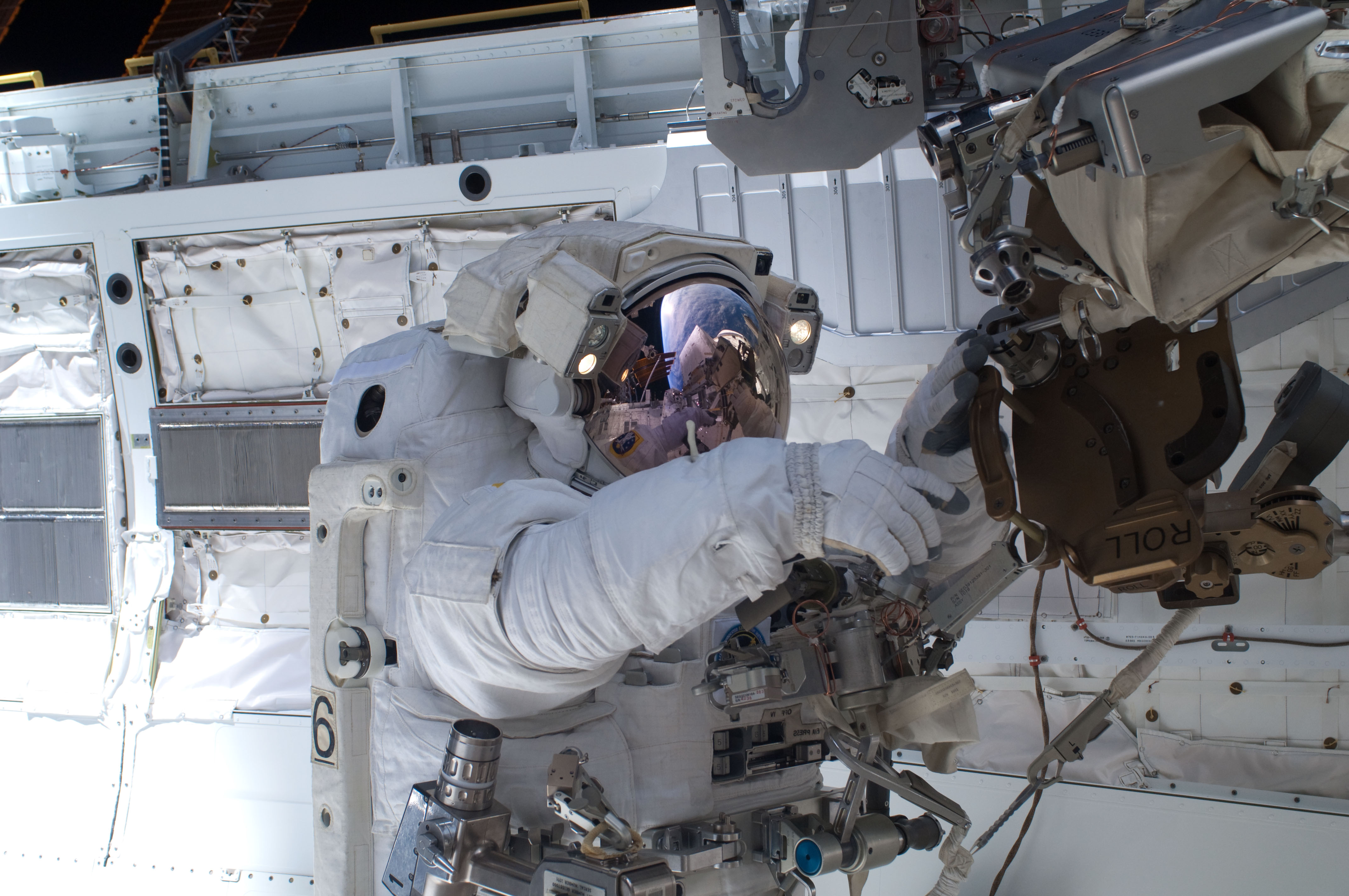 NASA astronaut Clayton Anderson, STS-131 mission specialist, participates in the mission's first session of extravehicular activity (EVA) as construction and maintenance continue on the International Space Station. During the six-hour, 27-minute spacewalk, Anderson and Rick Mastracchio (out of frame), mission specialist, helped move a new 1,700-pound ammonia tank from space shuttle Discovery's cargo bay to a temporary parking place on the station, retrieved an experiment from the Japanese Kibo Laboratory exposed facility and replaced a Rate Gyro Assembly on one of the truss segments.